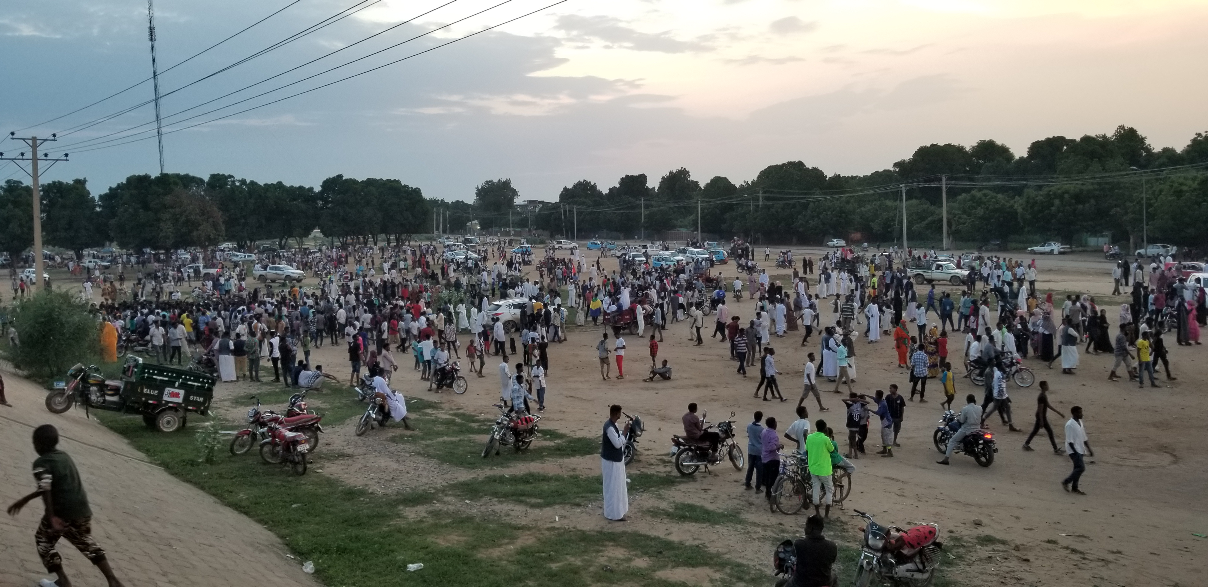 people celebrating by historic agreement between opposition and military after president al BASHIR gone This is an image with the theme "Africa on the Move or Transport" from: Sudan